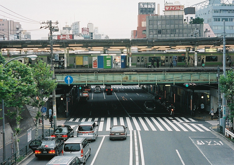 Nishi-Nippori Station in Arakawa, Tokyo, Japan.